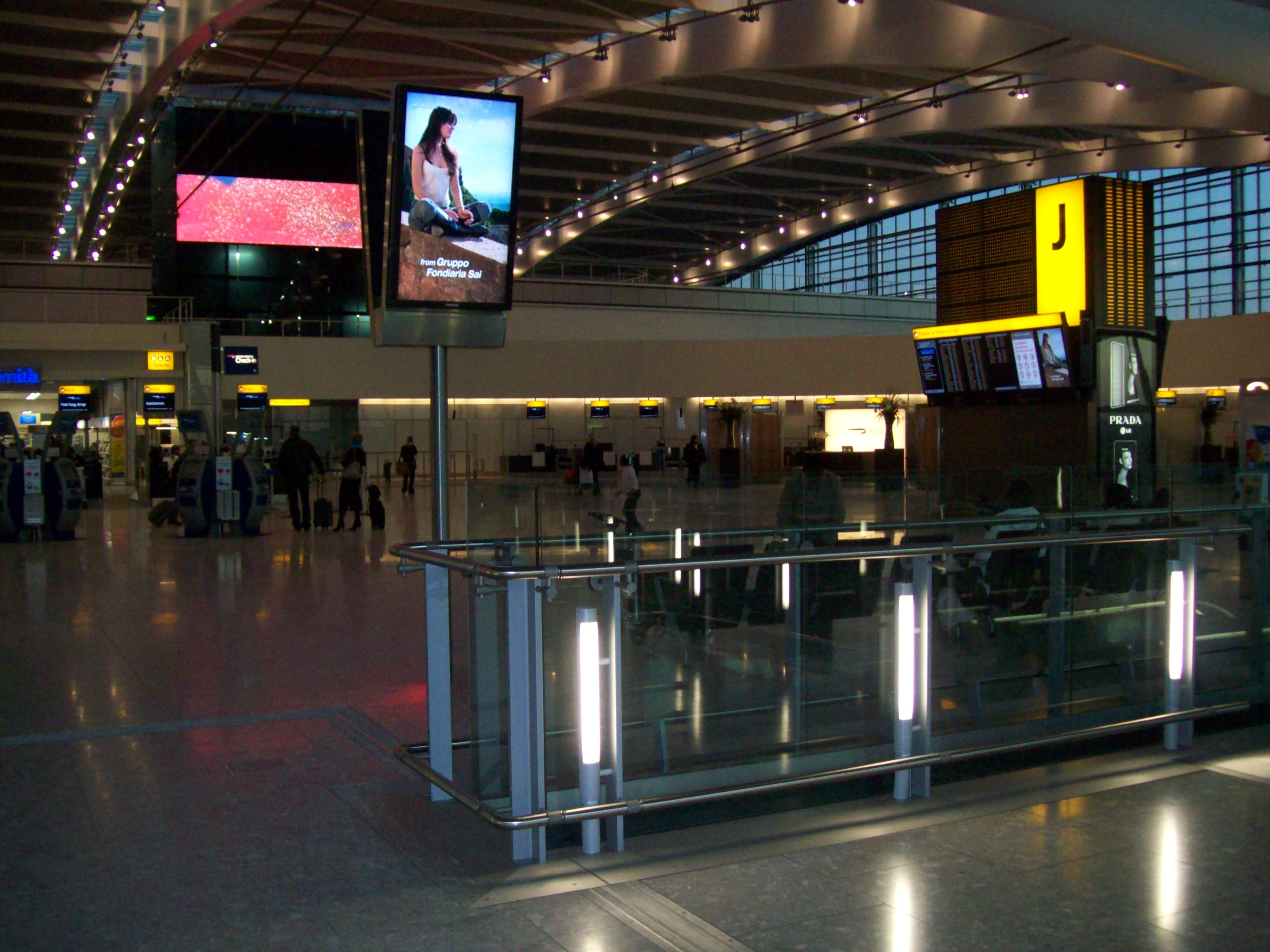 Heathrow Terminal 5 interior, showing Zone J concourse area and self-service check-in kiosks